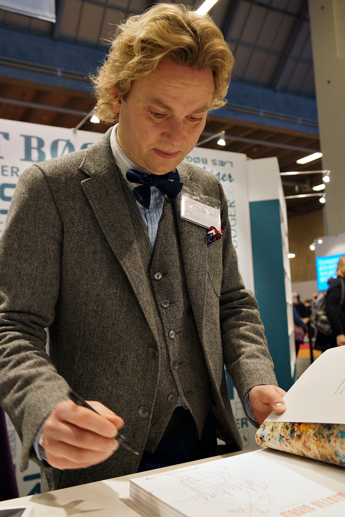 Martin Bigum - Danish artist and art-writer at the Copenhagen Book Fair "BogForum 2014", Copenhagen, Denmark